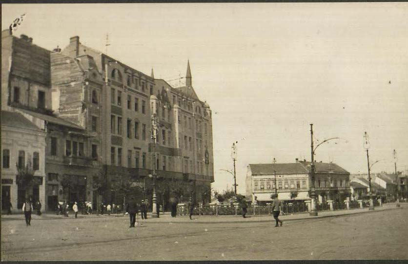 Terazije, with Hotel Moscow. Original caption This view shews part of the Eastward end of the Main Street looking West, the high building being the Hotel Moskah. I understand it was built some few years ago by a Russian Insurance Company. It was closed during my visit in Belgrade, the entire contents having been looted by the Germans. The railed in space is an underground Lavatory. This view again shews inferior buildings occupying valuable sites.